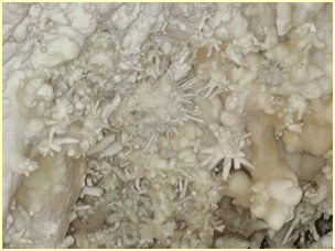 Helectites in Timpanogos Cave, Timpanogos Cave NM